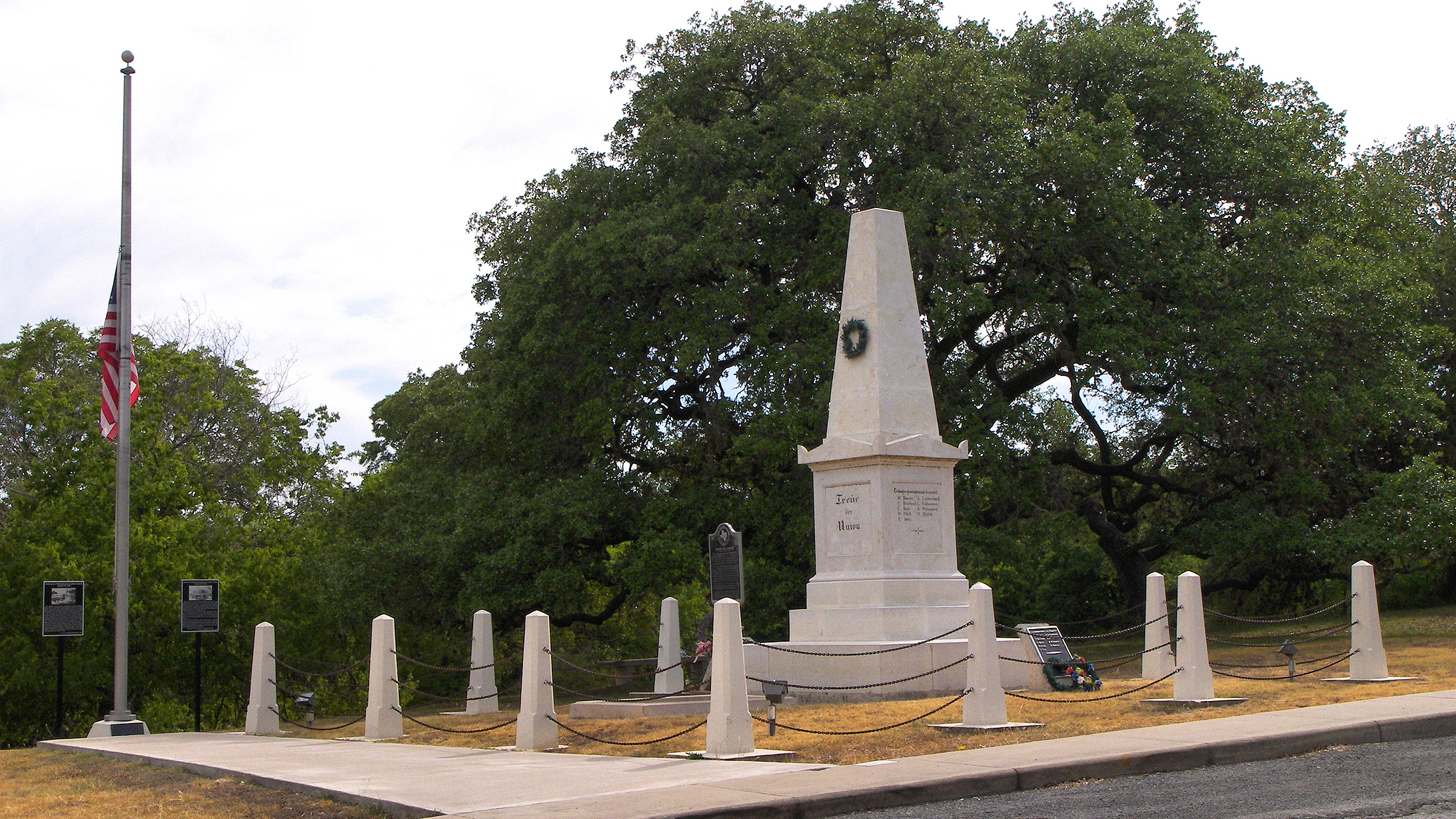 The Treue Der Union Monument located on High St. between Third and Fourth, Comfort, Texas, United States. The monument was listed on the National Register of Historic Places on November 29, 1978.